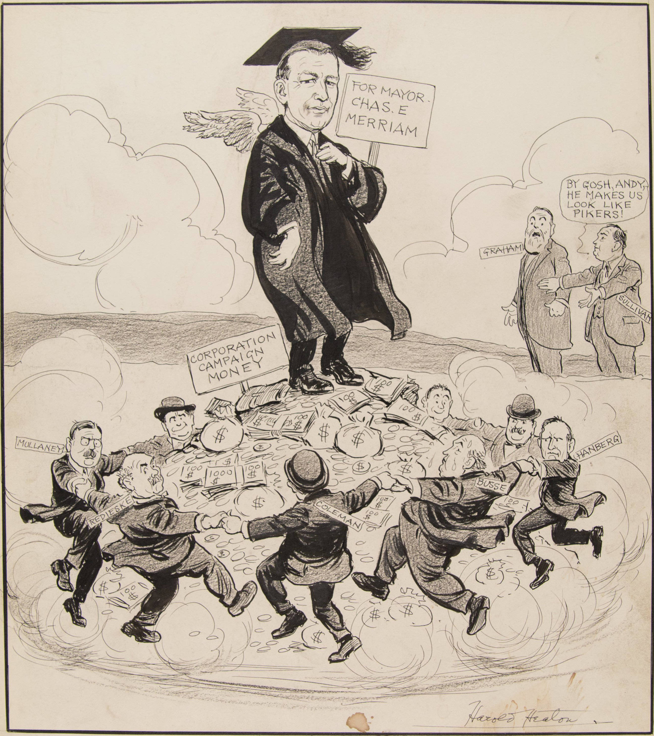 (But we know you...), a line from a verse which begins, Come to me, Charley E.... Drawing is untitled. (The Busse gang dances around Charles E. Merriam)